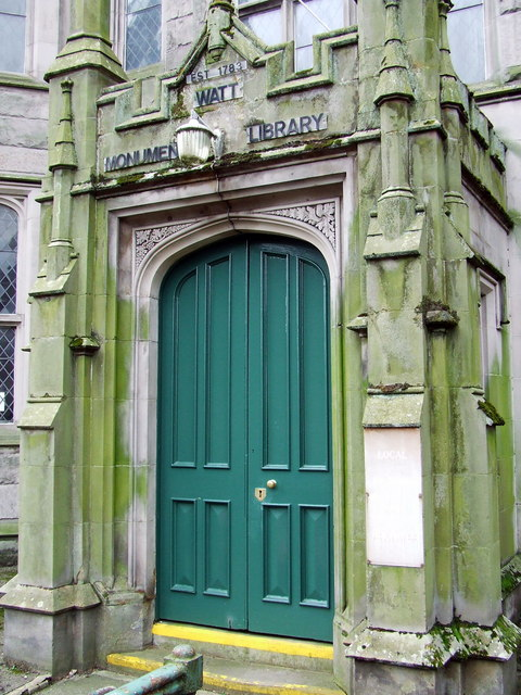 Watt Library entrance The main entrance to the Watt Memorial Library on Union Street. See 322501 for a general view of the building.